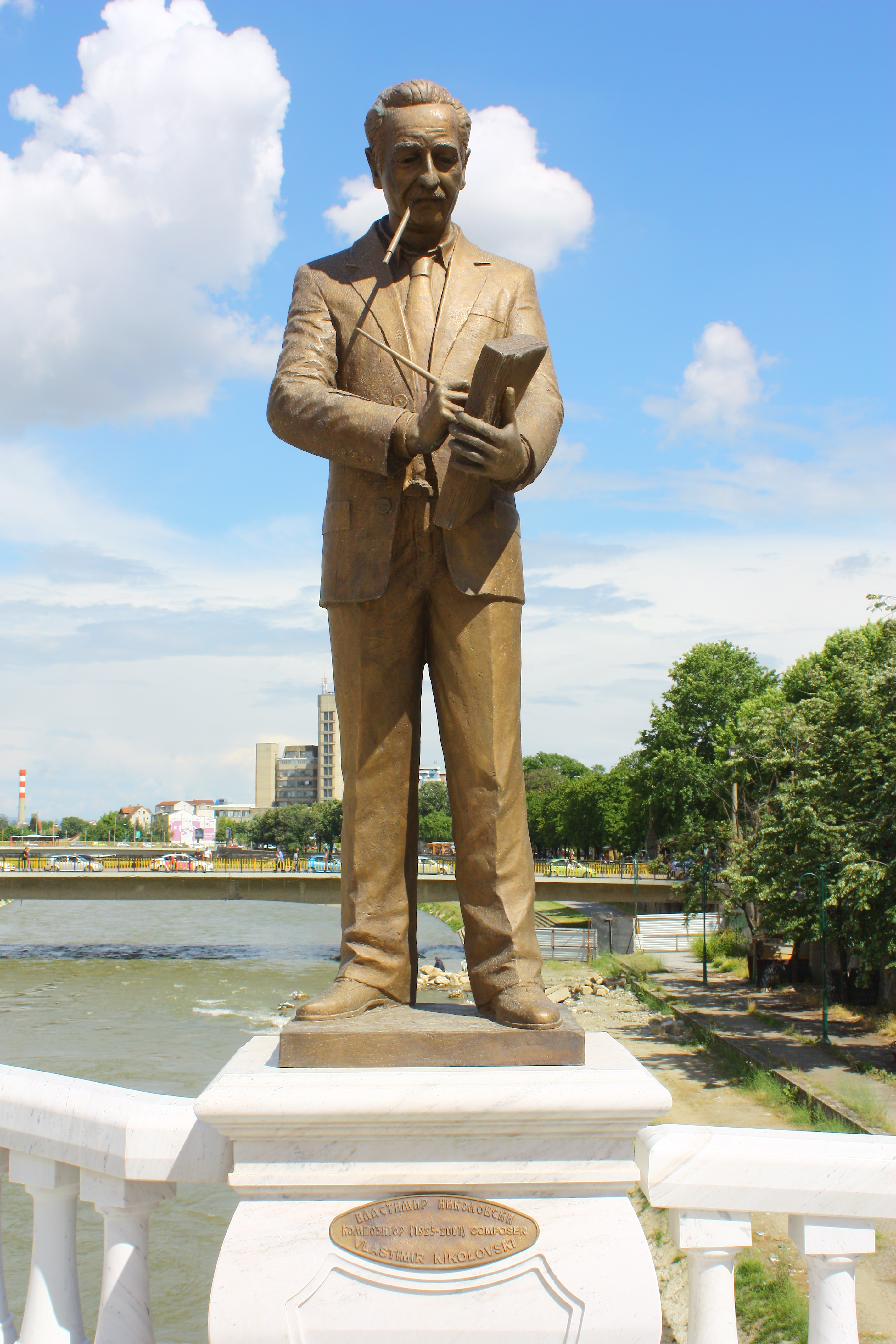 Sculpture od the Bridge of Arts in Skopje, Macedonia This image is uploaded as part of the picture contest Wiki Loves Cultural Heritage in Macedonia 2013. English | македонски | +/−